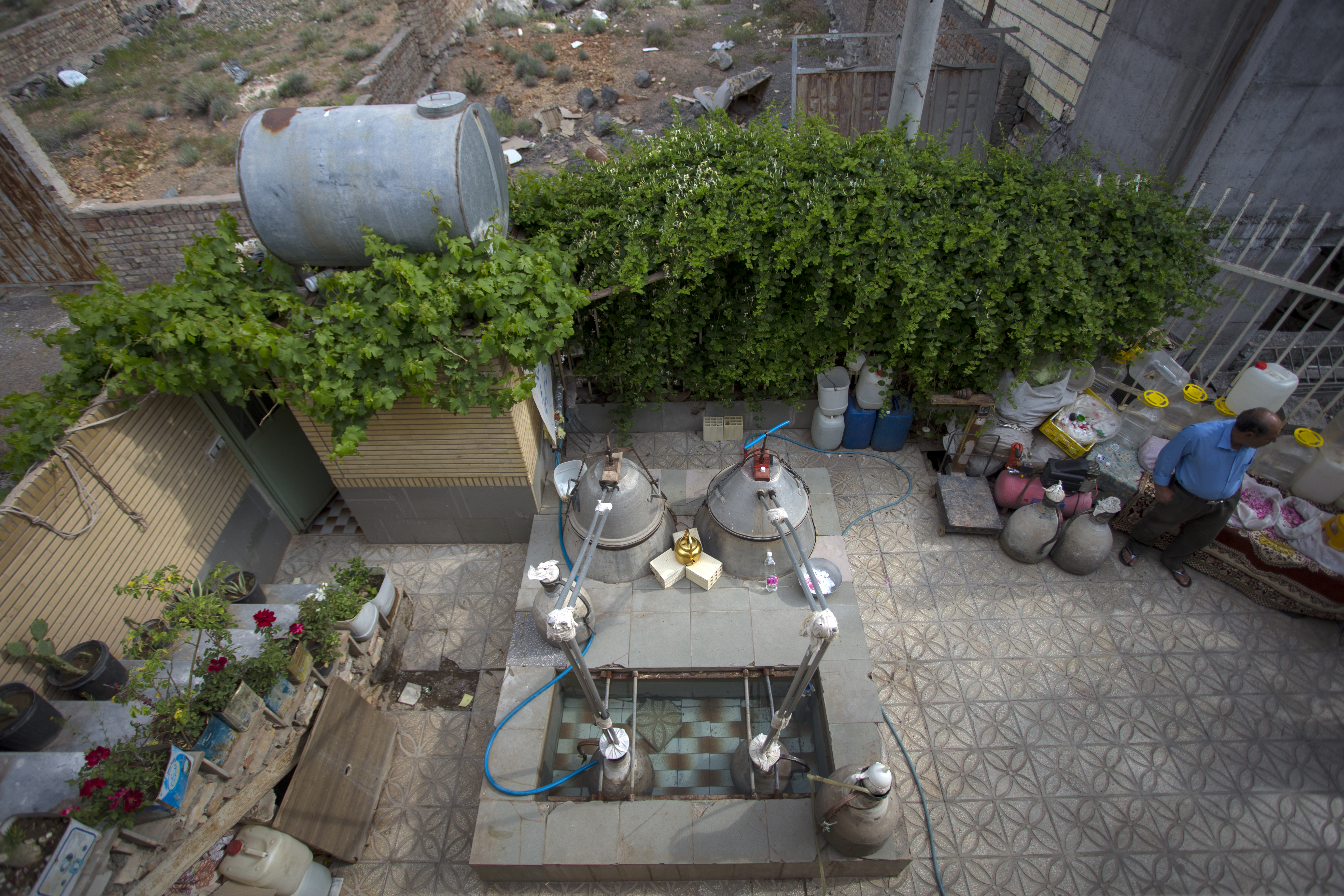 گلاب‌گیری مراسمی است که همه ساله از نیمه‌های اردیبهشت تا نیمه‌های خرداد در بخش‌های مختلف کاشان همچون قمصر و نیاسر و برزک انجام می‌شود. در این مراسم که سالانه بیش از یک میلیون نفر گردشگر به خود جذب می‌کند، از گل‌های سرخی که در این مناطق کاشته شده‌اند، گلاب تهیه می‌شود. در هزار و پانصد واحد گلابگیری که در کاشان وجود دارد، سالانه پانزده هزار تن گلاب سنگین تولید می‌شود. عکس ها مربوط به مراسم گلابگیری در شهر قمصر کاشان (ویکی پدیا)